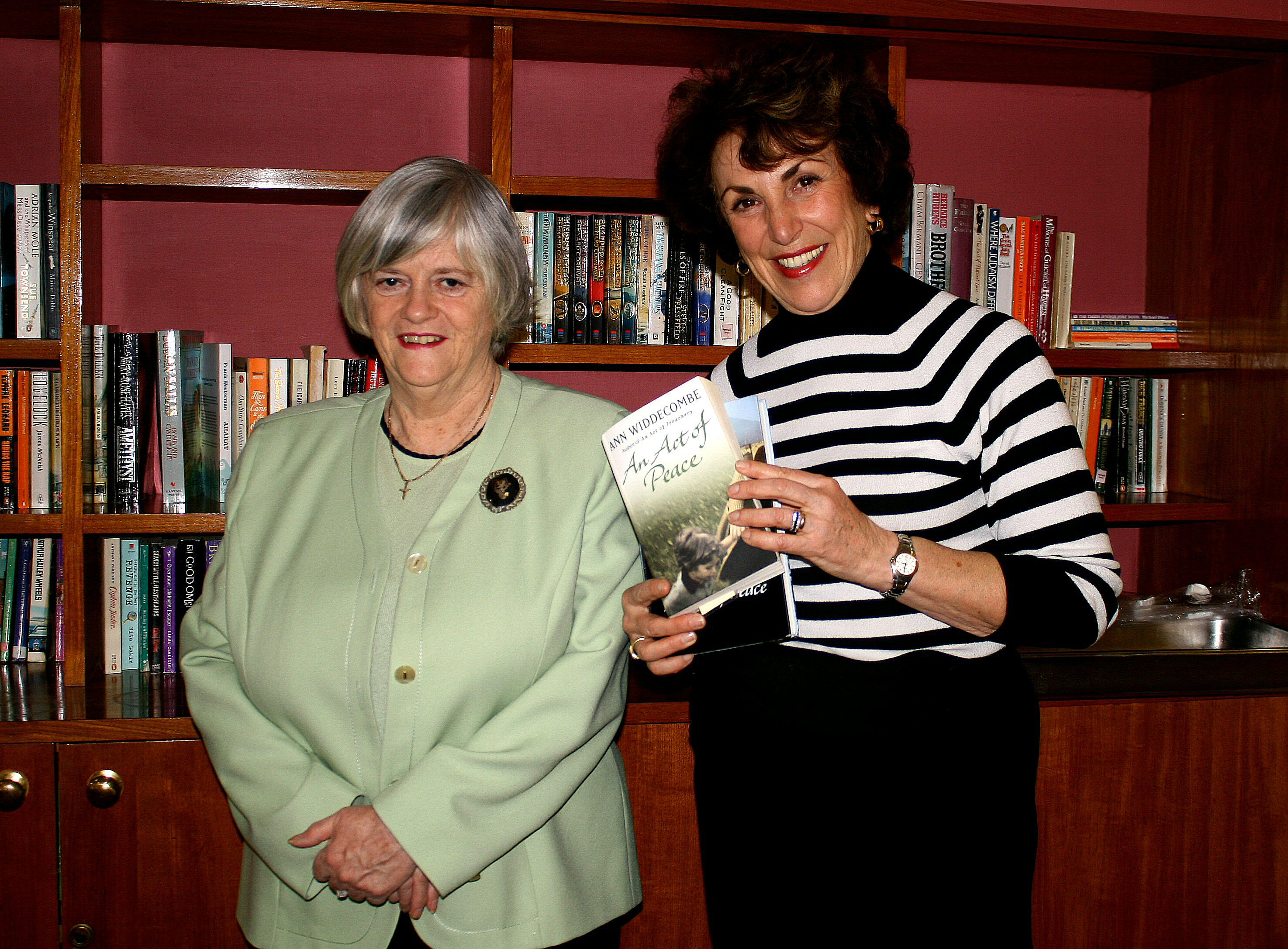 Ann Widdecombe at Edwina Currie's Book Club,Nightingale House April 2010